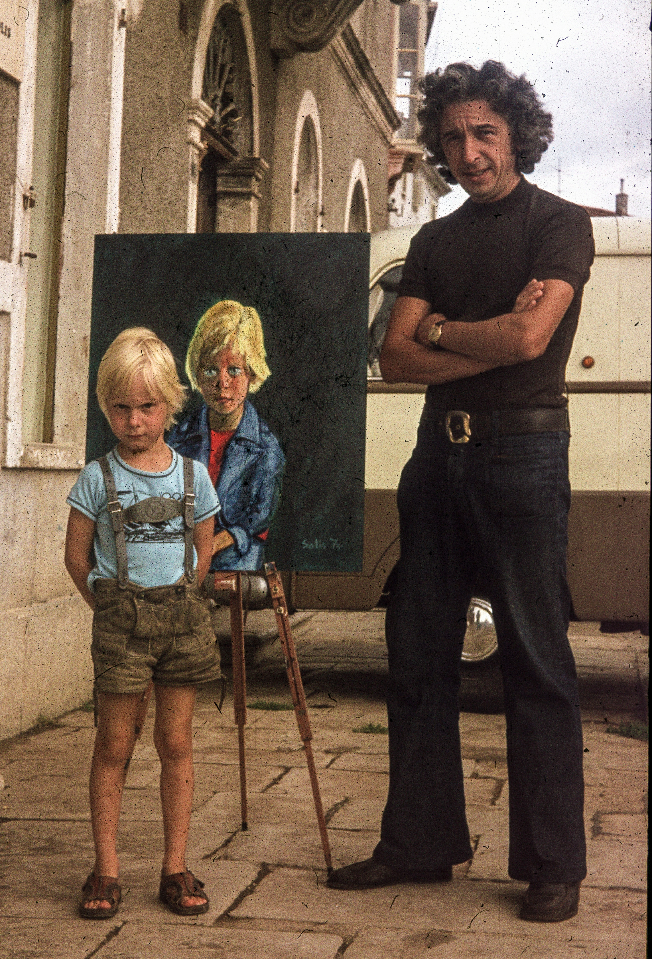 Croatian painter Mate Solis in 1973, with one of his paintings